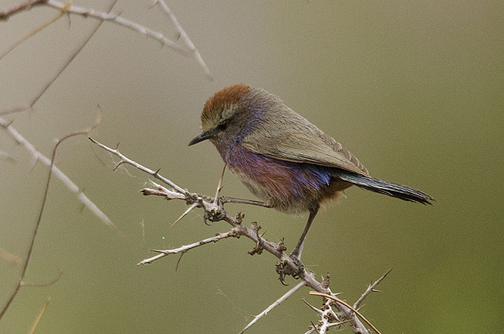 White-browed Tit Warbler male at Panamic, Nubra Valley, Ladakh, India